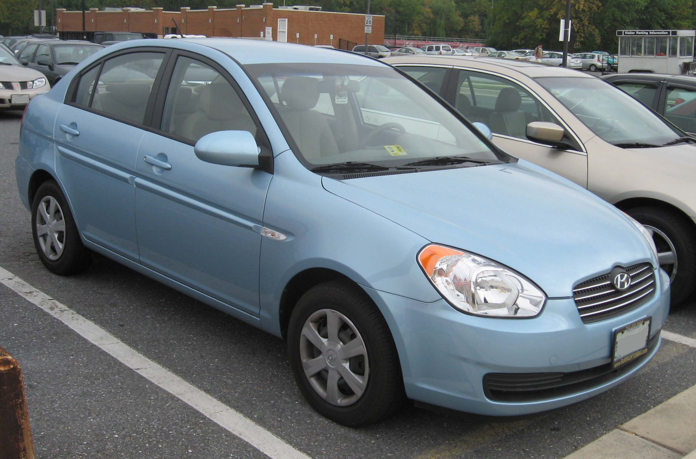 2006-2008 Hyundai Accent photographed in College Park, Maryland, USA.